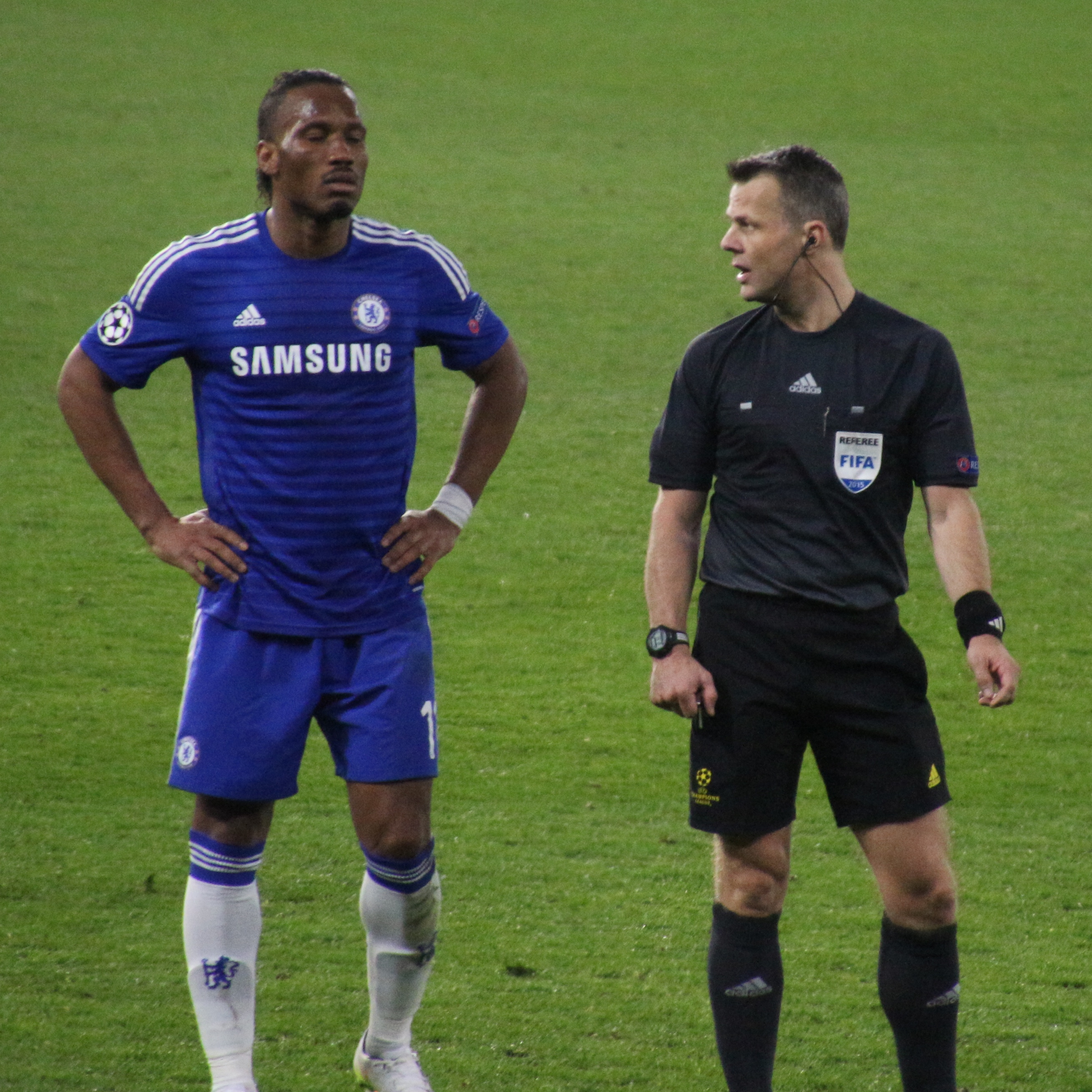 Chelsea 2 PSG 2 (Agg 3-3)